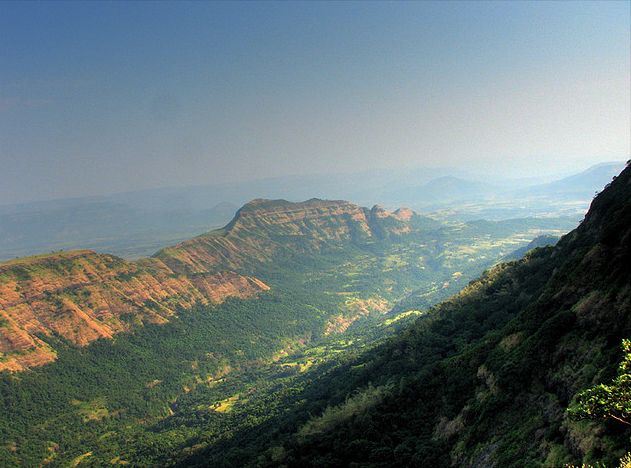 Deccan Traps, Matheran, MH, India